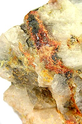 Montroydite Locality: Mariposa Mine (California Mountain Mine), Terlingua District, Brewster County, Texas, USA (Locality at ) Size: thumbnail, 2.7 x 2.2 x 1.5 cm Montroydite A VERY RICH and unusually large specimen of montroydite, a rare Terlingua mercury mineral! The piece has a thick vein running through it, and is rich with microcrystals on attractive contrasting calcite. The dark red is the montroydite and the orange mineral is kleinite. Edgar Bailey was a noted mineralogist and field collector of Terlingua minerals, and the species Edgarbaileyite is named after him in honor. This is from his collection and was self-collected by him, part of a suite of such pieces (not from Feinglos coll.)